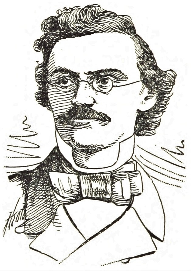 Image taken from: Title: "Leading Events of Wisconsin History. The story of the State" Author: LEGLER, Henry Eduard. Shelfmark: "British Library HMNTS 9615.ccc.7." Page: 214 Place of Publishing: Milwaukee Date of Publishing: 1898 Publisher: Sentinel Co. Issuance: monographic Identifier: 002117509